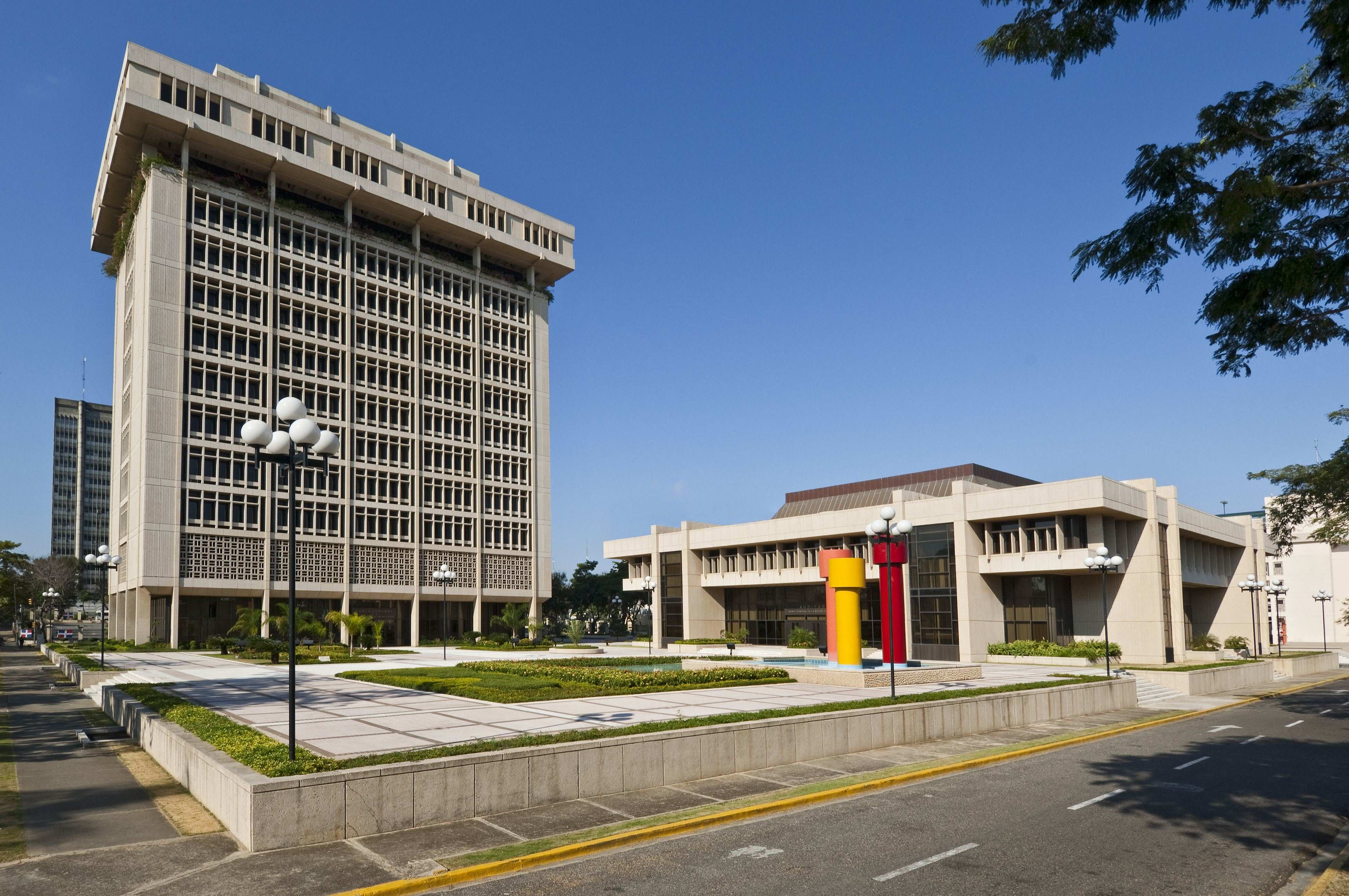 Tower and Auditorium of the Central Bank of the Dominican Republic, in Santo Domingo